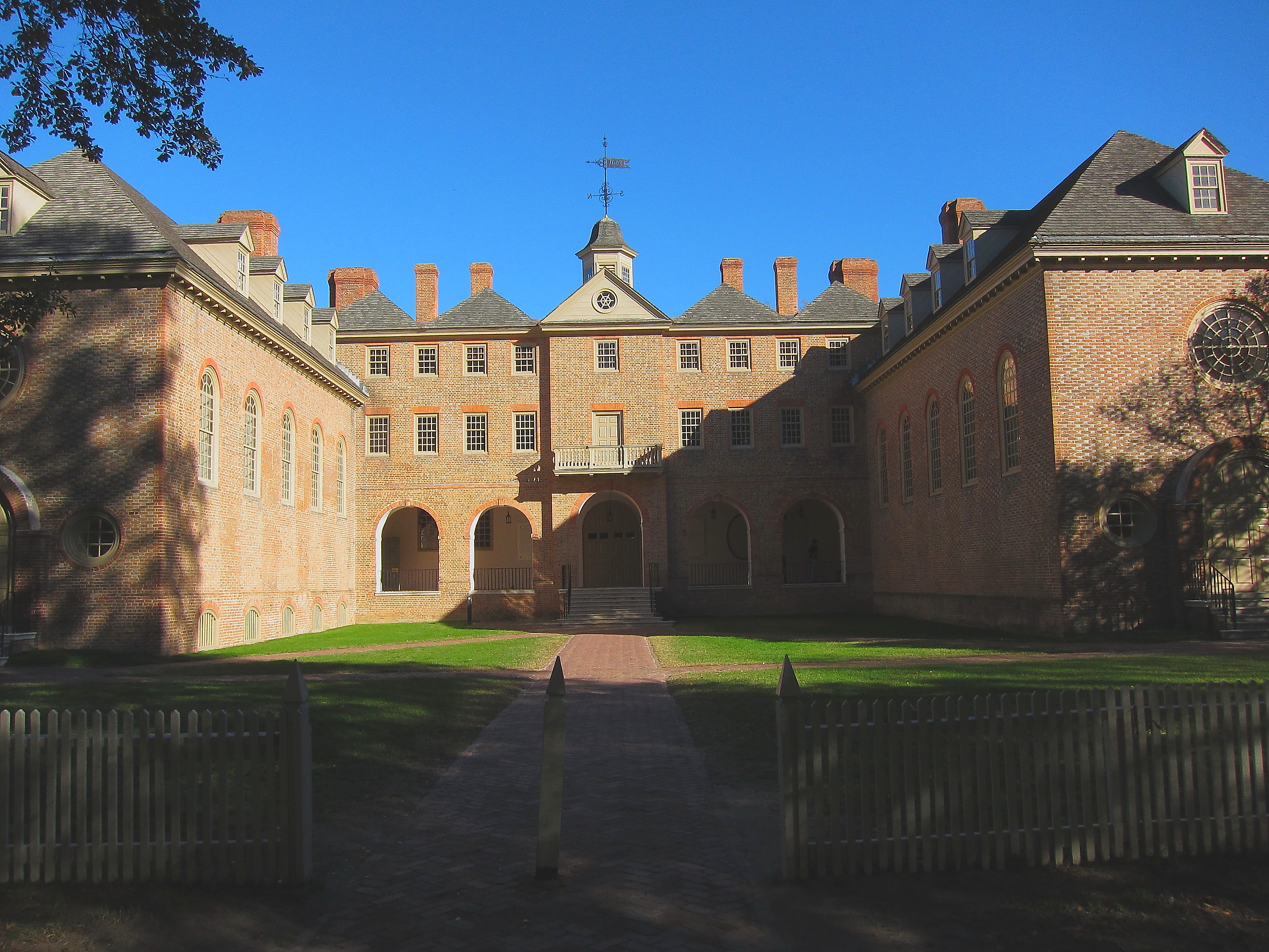 The Wren Building